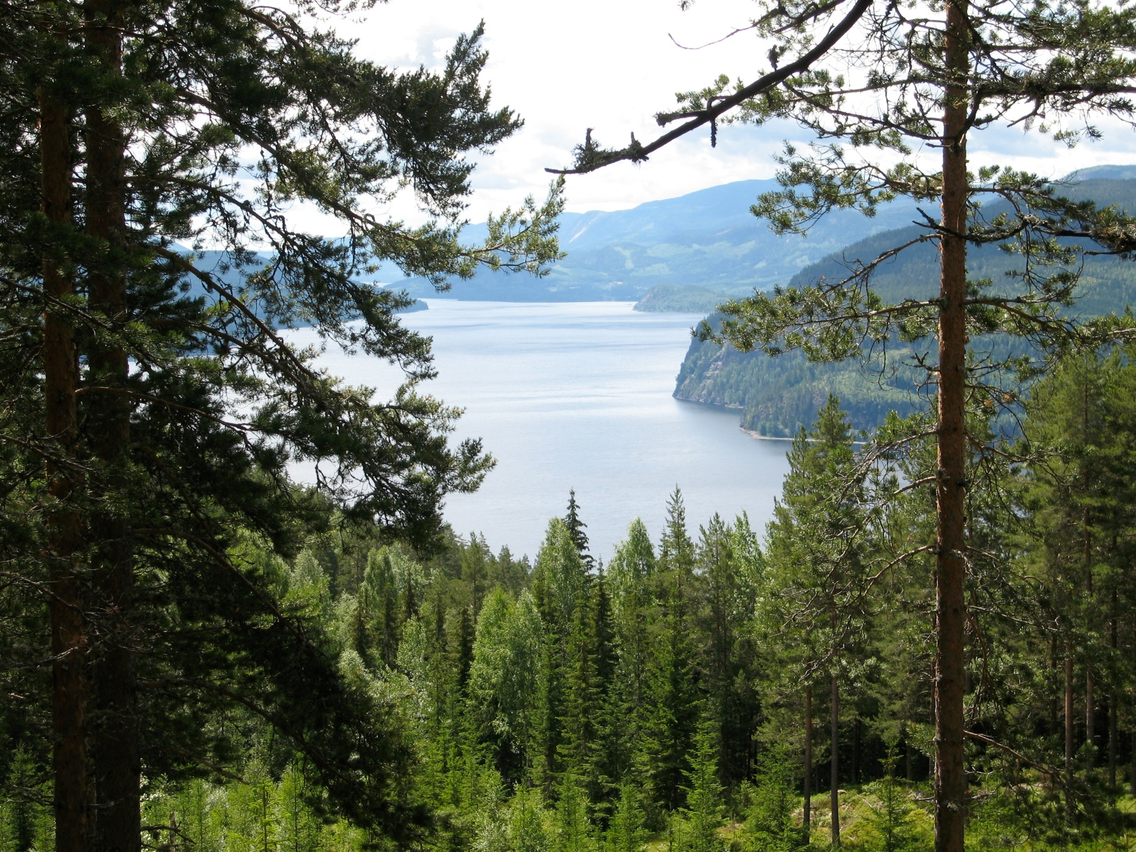 Sperillen from a logging road above the northeast end of the lake.